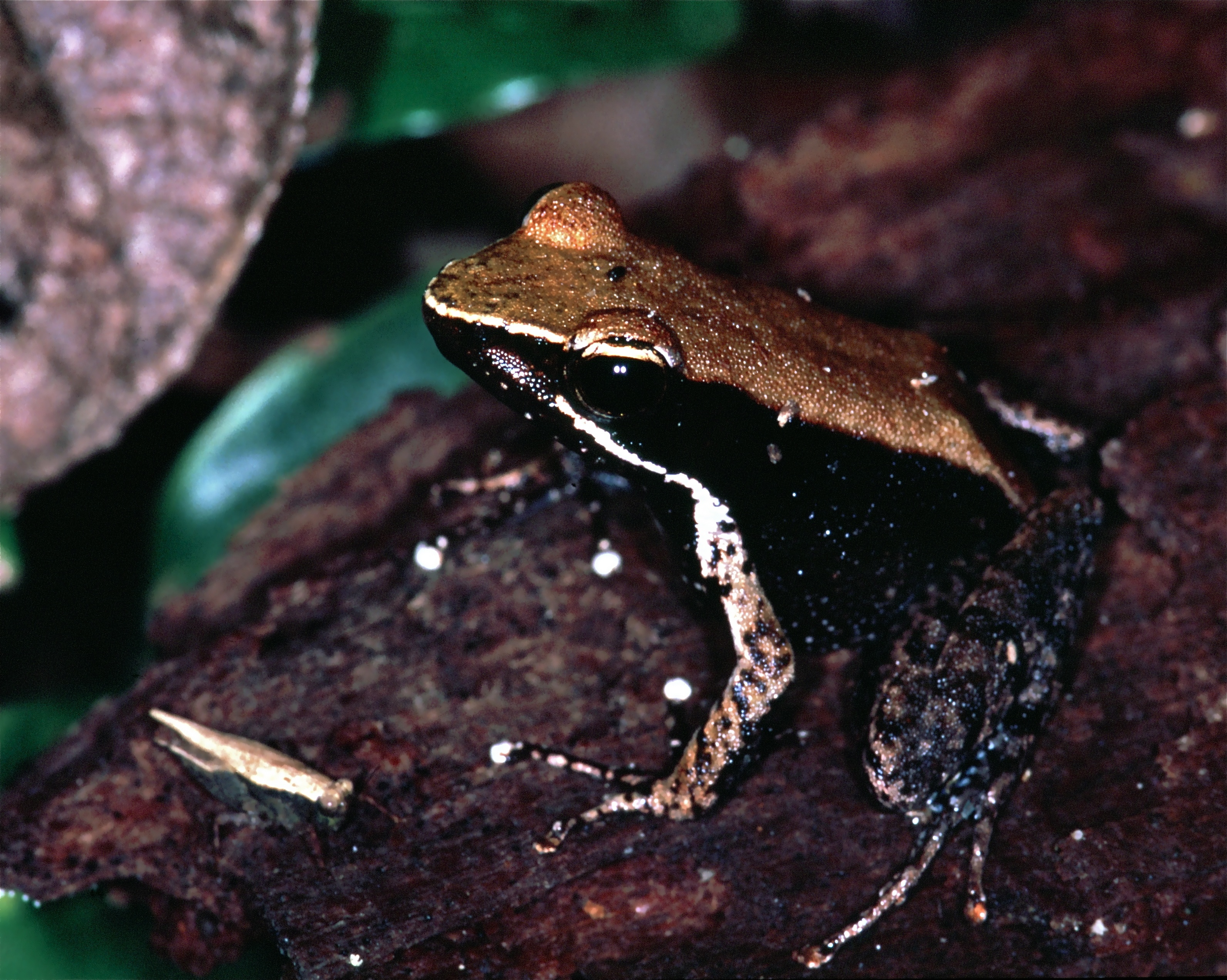 Nosy Mangabe, MADAGASCAR Scanned Slide from 2004